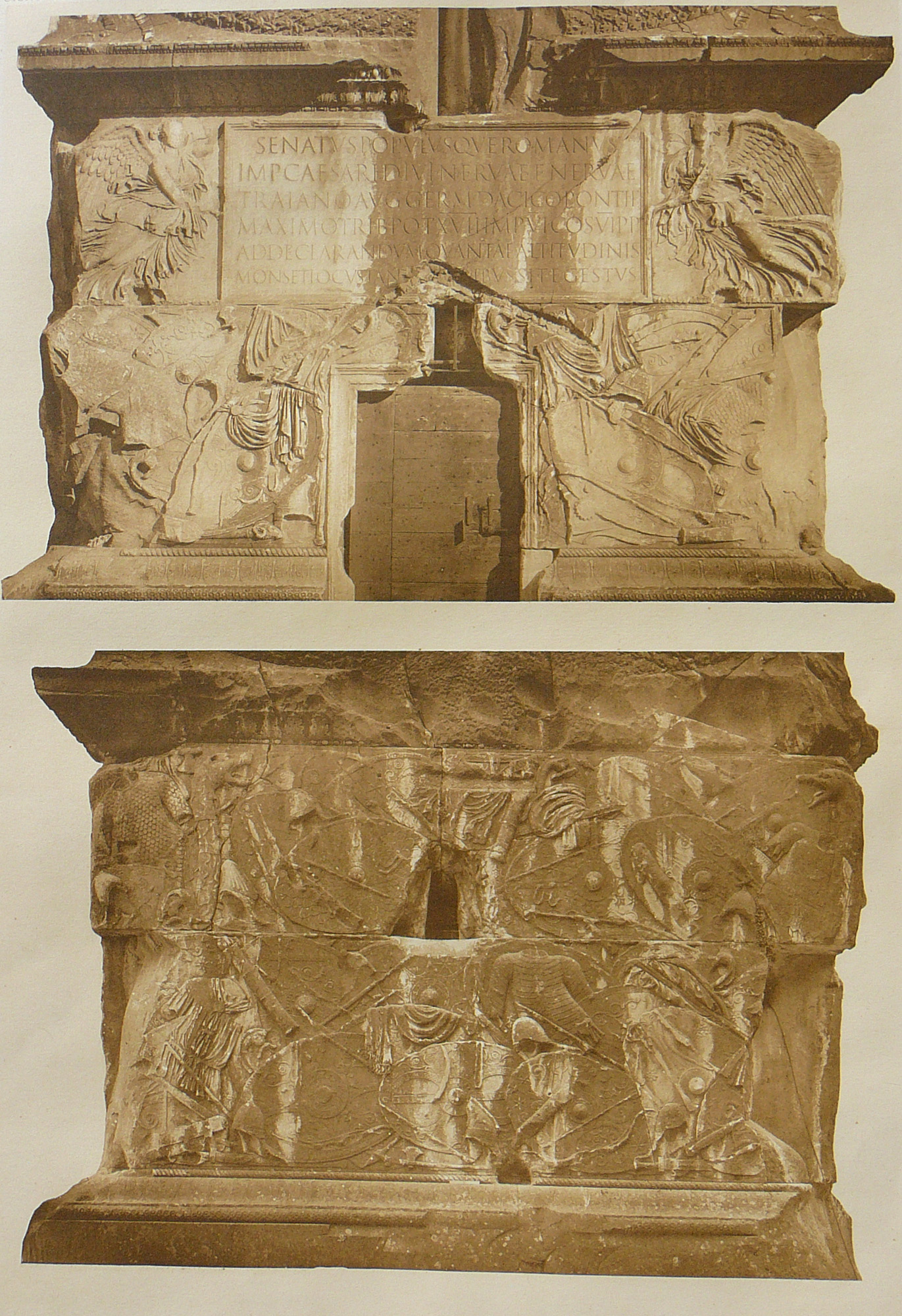 The base: southeast side (above), northeast side (below)